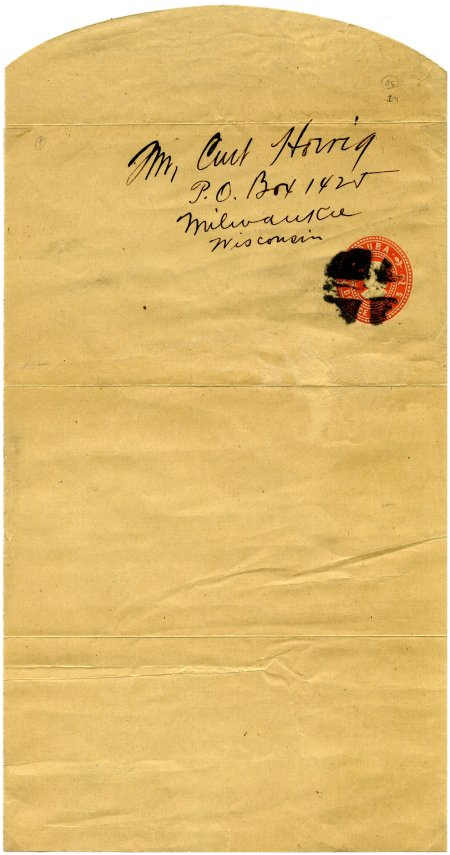 2 centavos newspaper wrapper from 1899 printed in the U.S. for use in US occupied Cuba. This appears to be a cancel to order specimen with a cork cancellation. Cork or handstamp cancellation of wrappers was common because the contains usually were of a width that prevented machine cancellation.